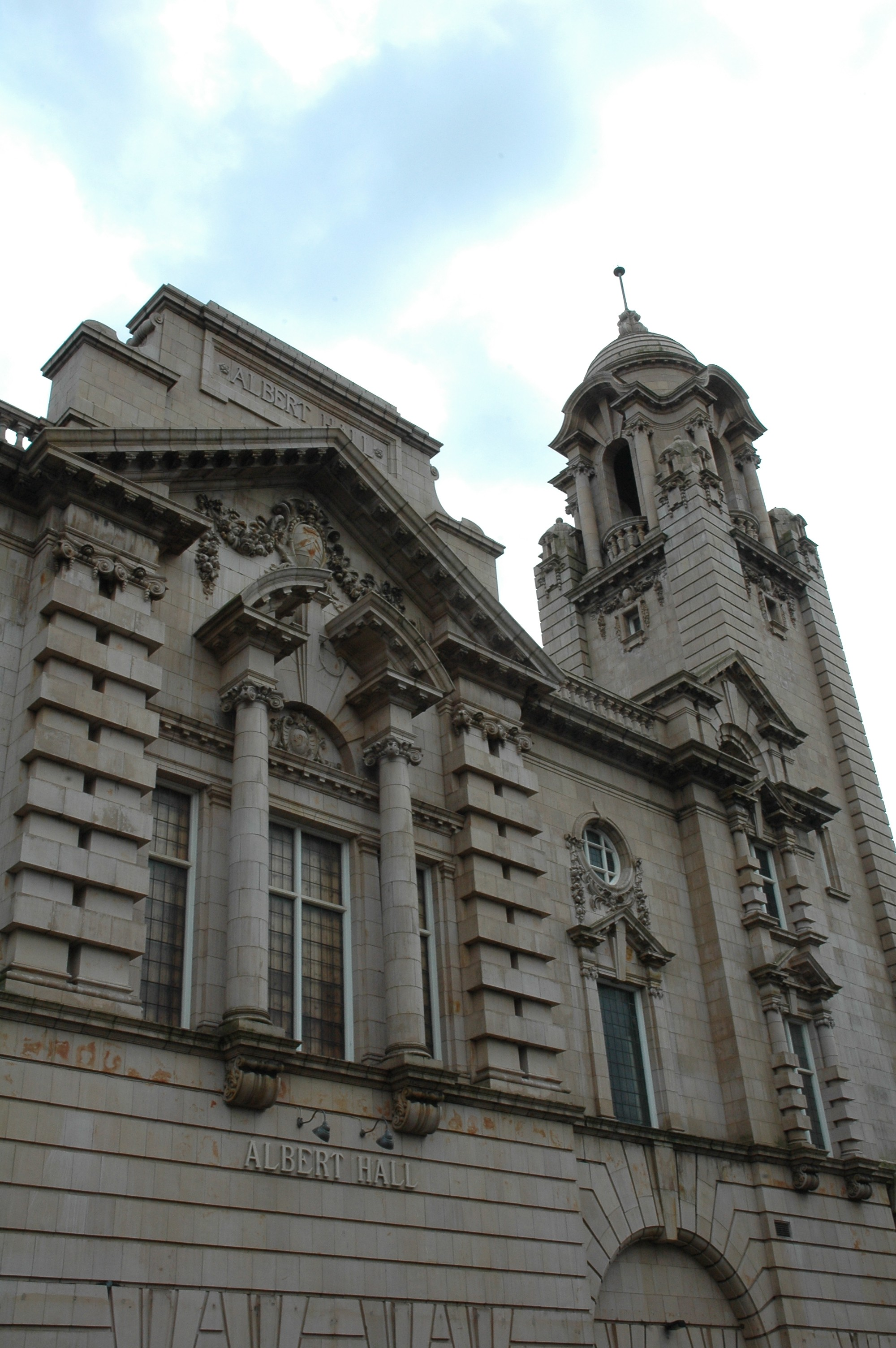 Albert Hall, Nottingham